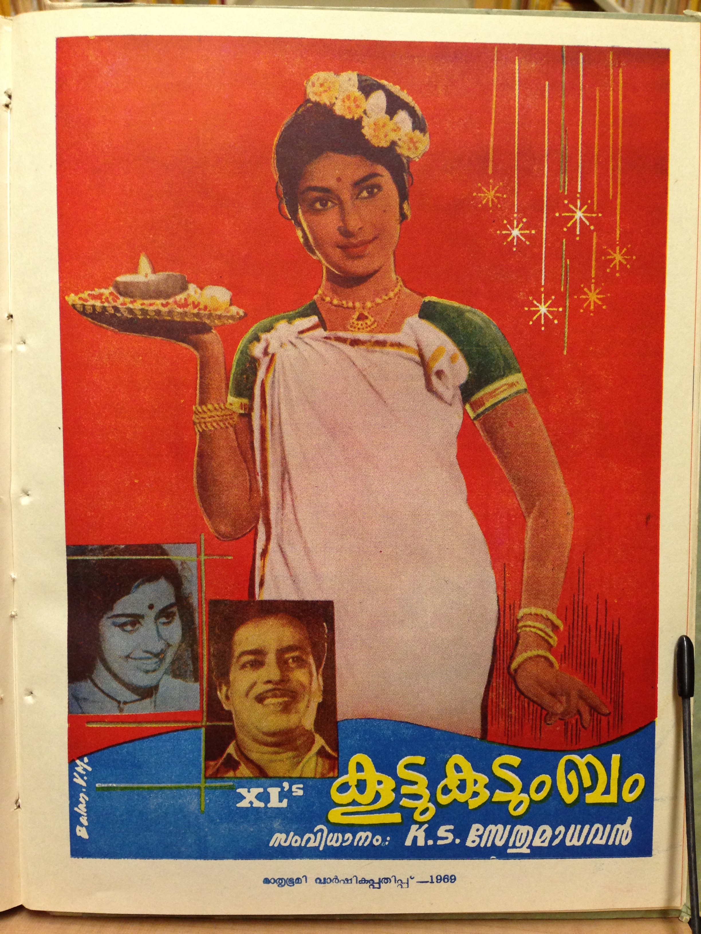 Poster of Malayalam movie Koottukudumbam printed on Mathrubhumi Year Book 1969.